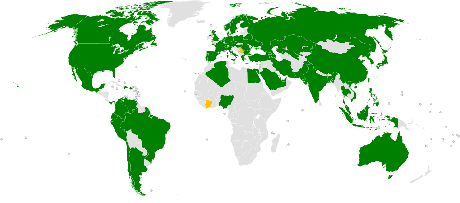 Countries with metro systems Legendː Standard metro system Metro system under construction